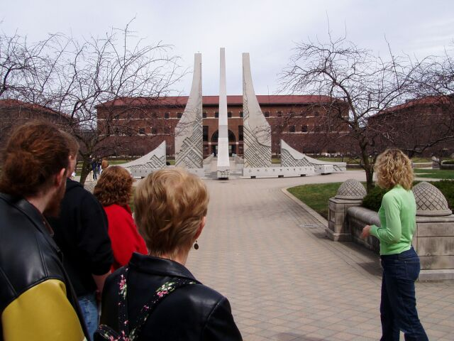 Purdue Fountain on the Engineering Campus